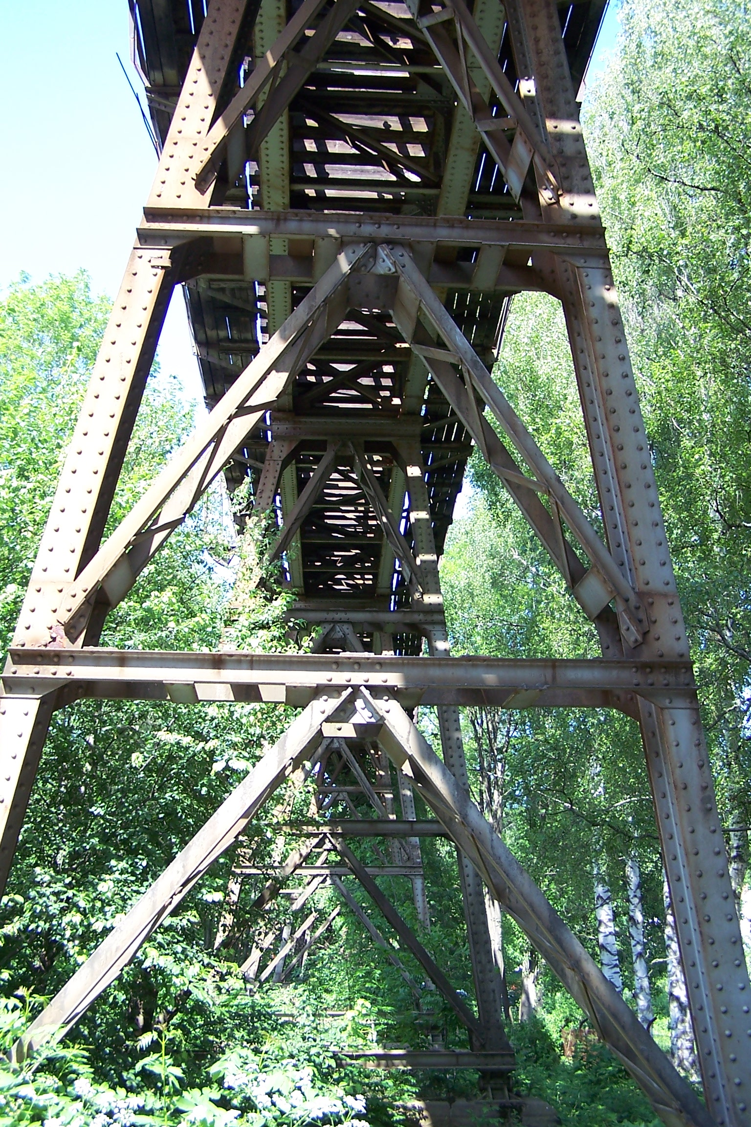 Hølen, disused iron railroad bridge, opened 1878